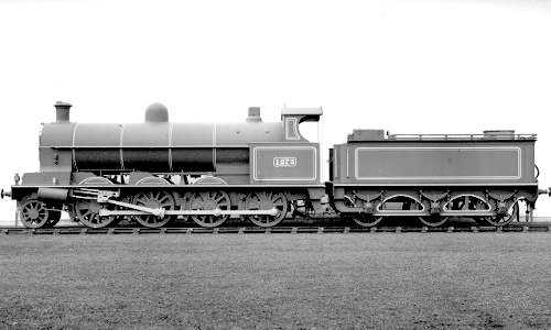 Photograph of LNWR locomotive No. 1273 F Class